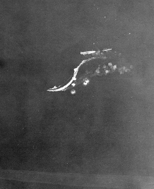 The damaged and immobile Japanese aircraft carrier Ryujo photographed from a USAAF Boeing B-17 Flying Fortress bomber, during a high-level bombing attack during the Battle of the Eastern Solomons on 24 August 1942. The destroyers Amatsukaze (lower left) and Tokitsukaze (right) had been removing her crew and are now underway, one from a bow-to-bow position and the other from alongside. Two sticks of bombs are faintly visible about one ship-length above the carrier's bow and stern.